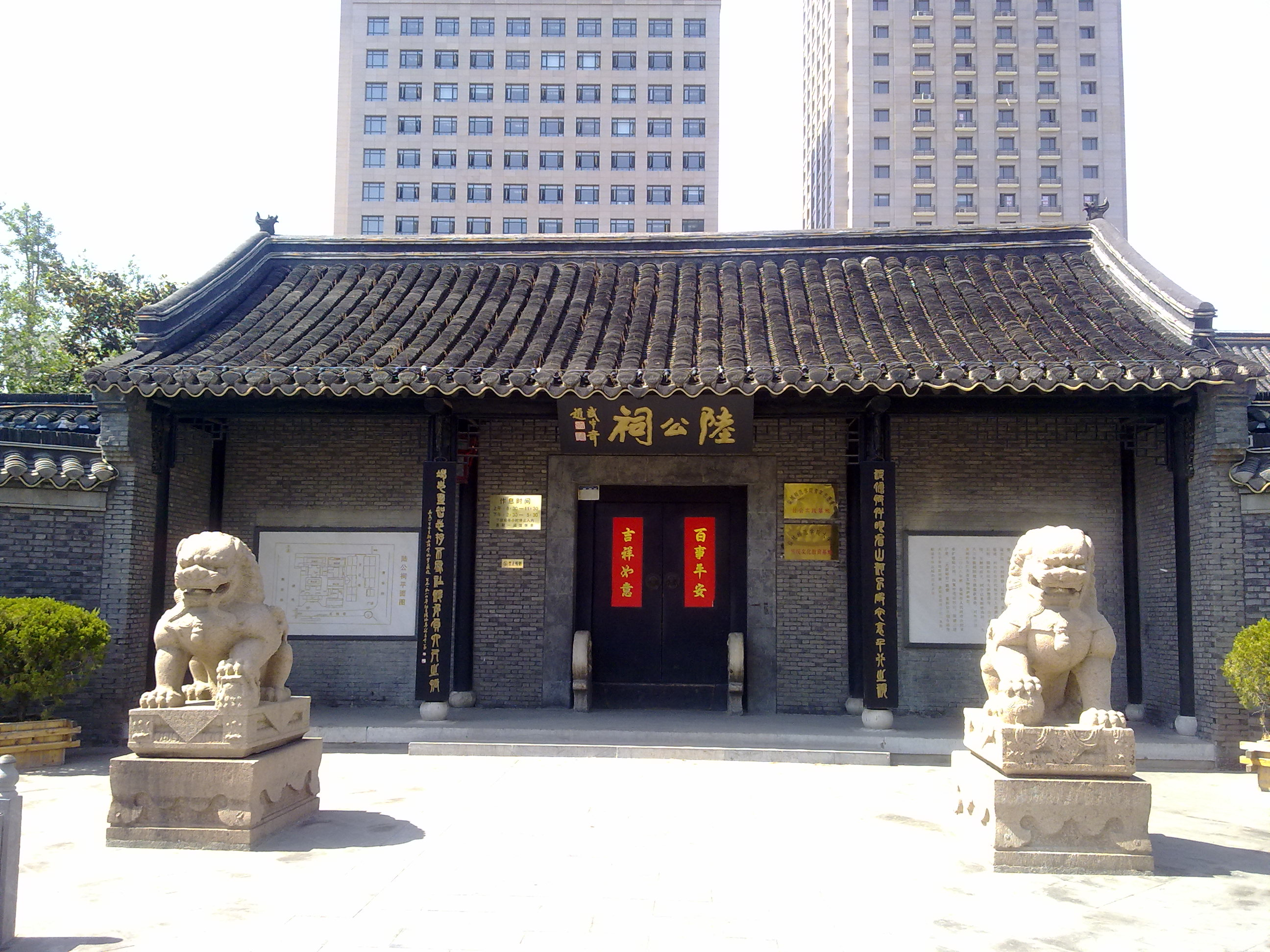 Lu xiufu Temple — in Yancheng city, Jiangsu Provence, southeast China. Architecture of the Song Dynasty.